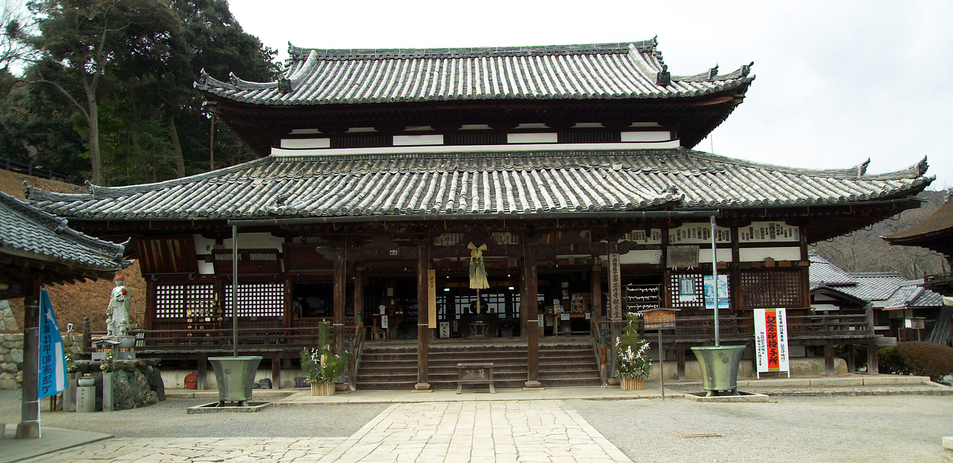 Kannon-do at Mii-dera, a Buddhist temple in Otsu, Shiga Prefecture, Japan. I took the photo and contribute my rights in it to the public domain; individuals and organizations retain rights to images in it.